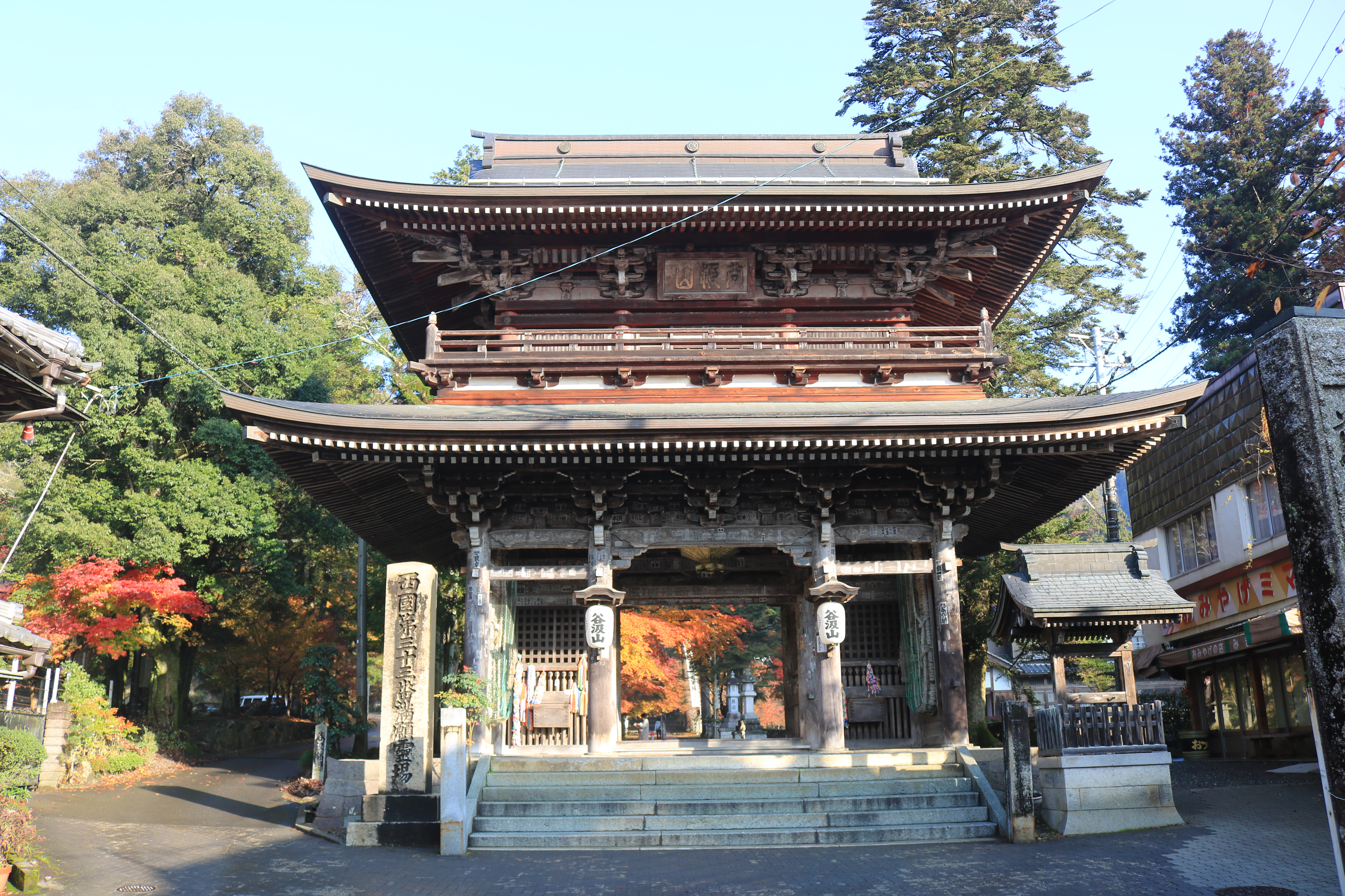 Niomon of Kegon-ji on Mount Myoho, in Ibigawa, Gifu prefecture, Japan.